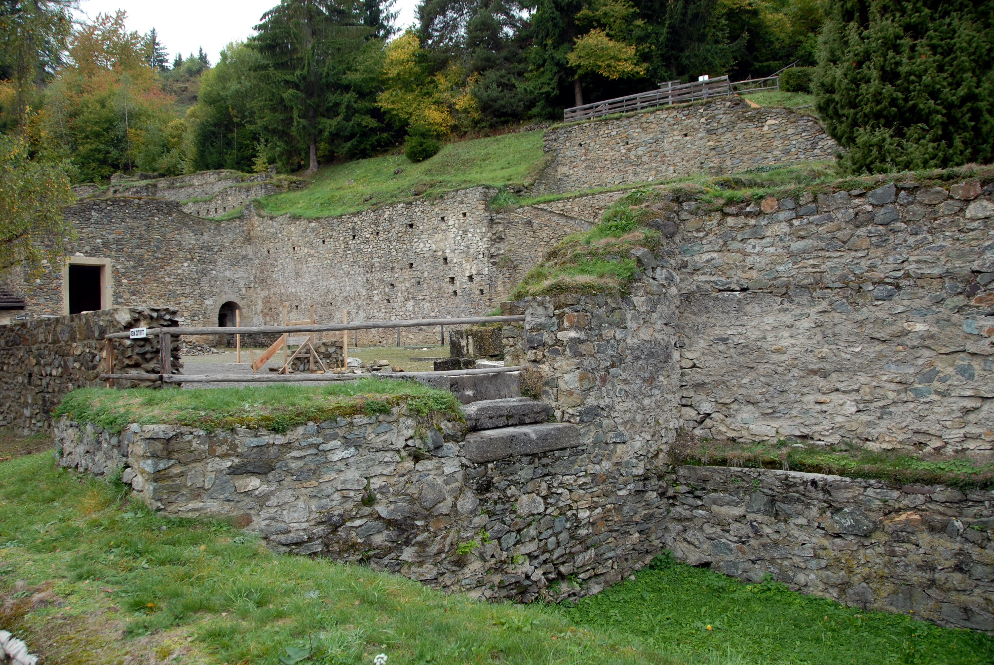 Excavations of Virunum 1 on the mountain of Magdalena, Magdalensberg, Carinthia, Austria